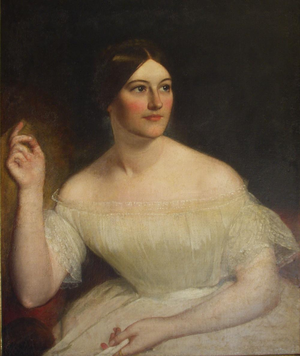 This is a painting by William West of Ida Yeatman Rains, Wife of General James E. Rains.